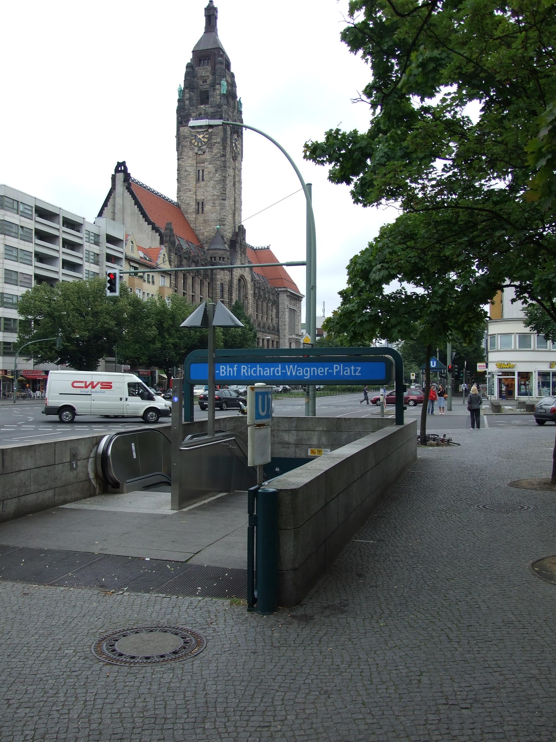 Charlottenburg City Hall, in front the Richard-Wagner-Platz U-Bahn Station entrance can be seenhelp